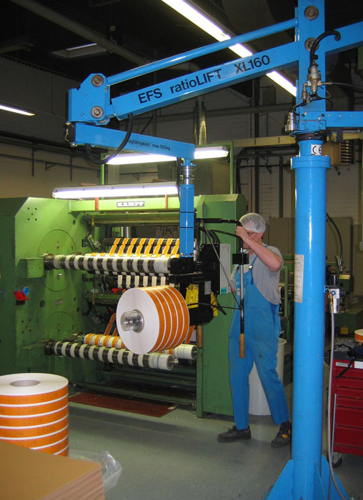 handling device; EFS RatioLIFT pneumatic industrial lifting device. (EFS of Nordheim, Germany)